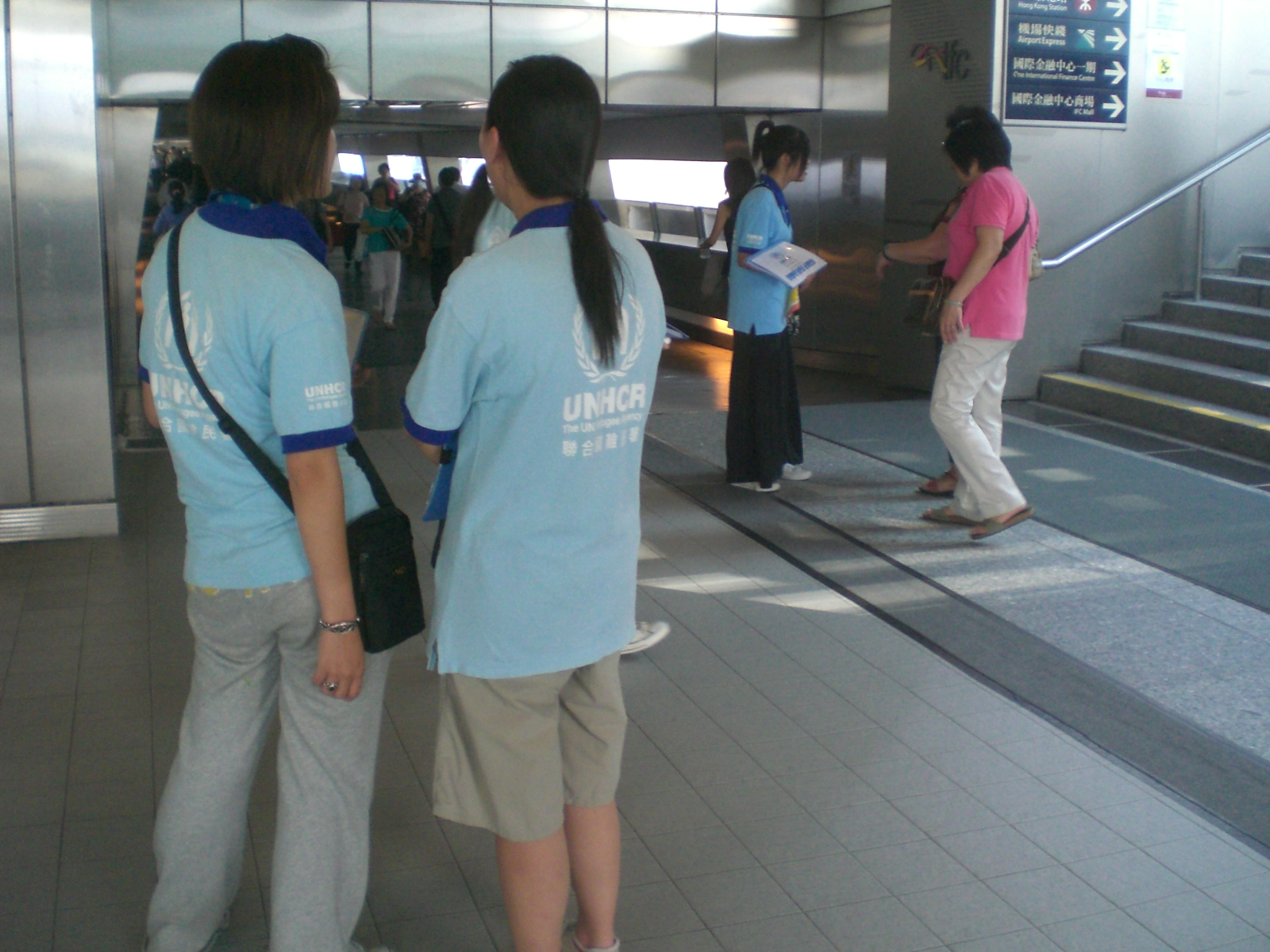 UNHCR staff at work in Central, Hong Kong.